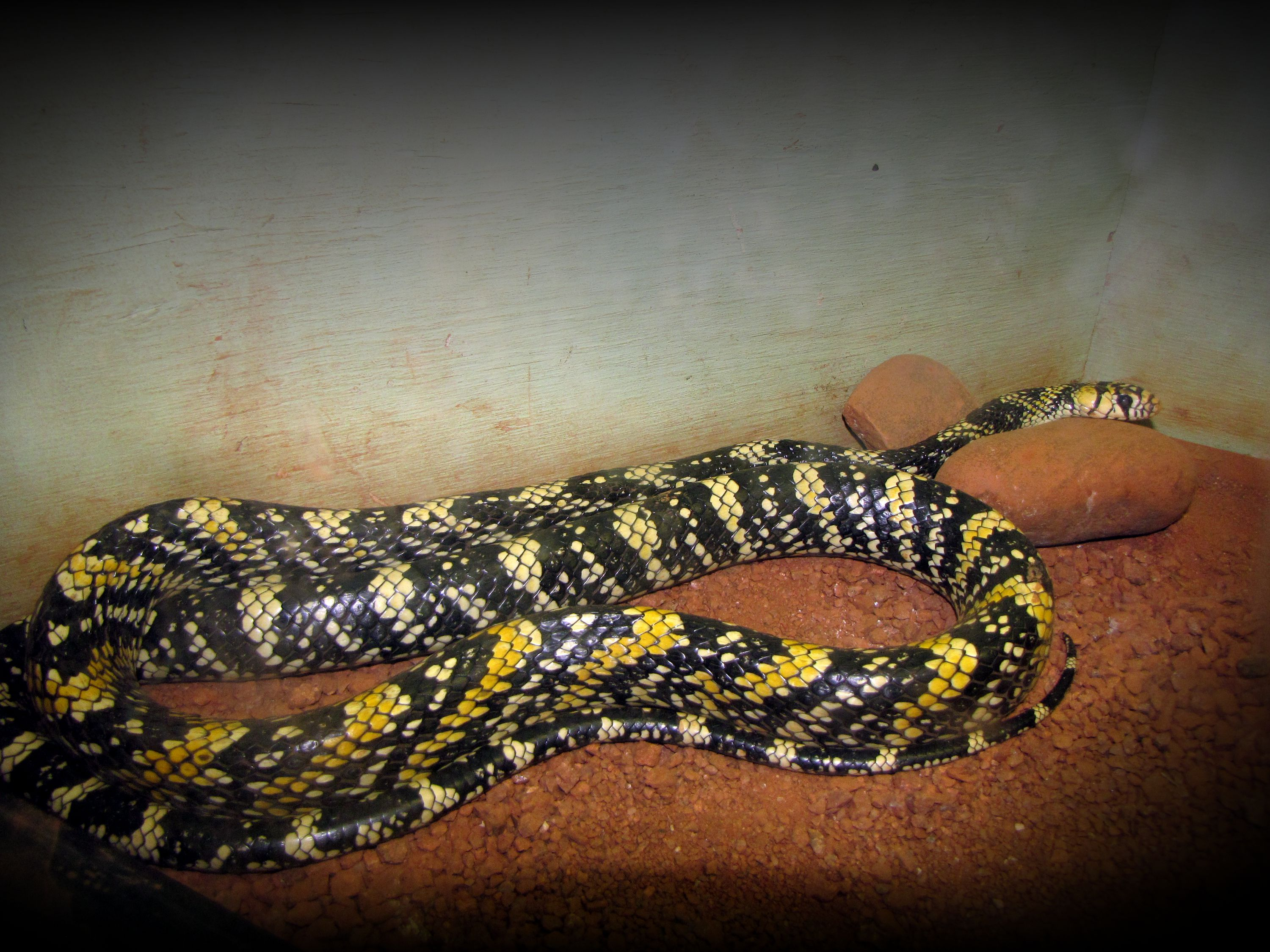 Spilotes pullatus mexicanus